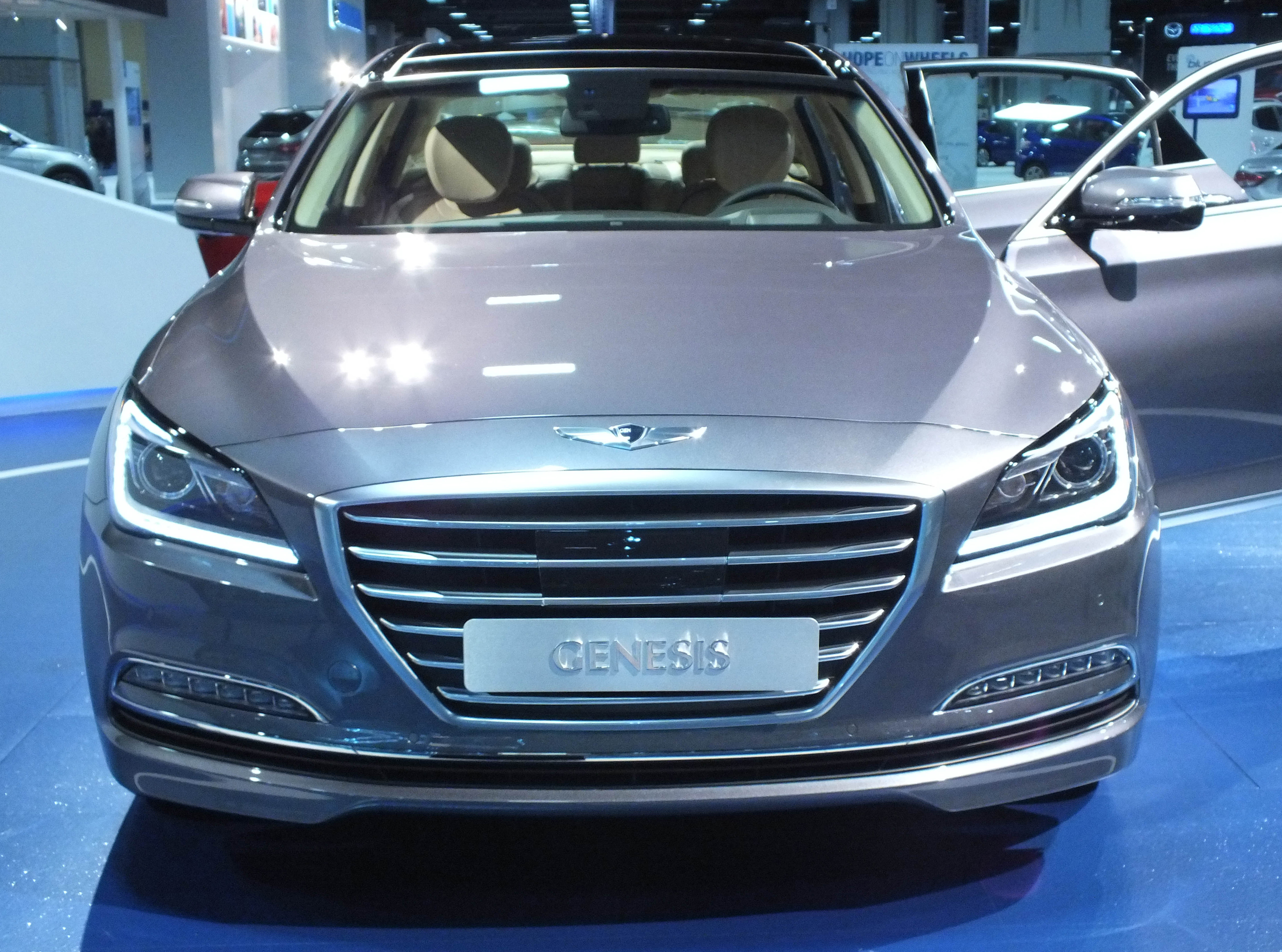 Full head-on view of the 2014 Hyundai Genesis. (United States)